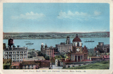 Postcard of Halifax, Nova Scotia, published 1921.